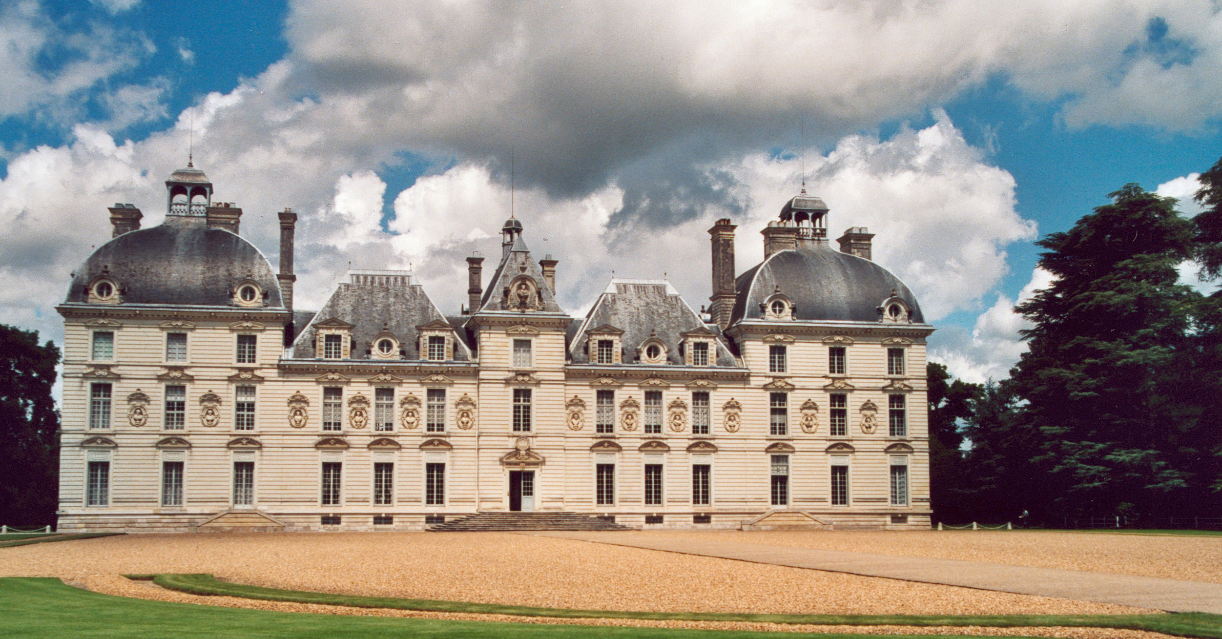 France : Castle of Cheverny (Loir et Cher)